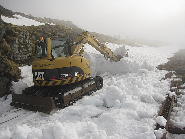 Caterpillar digger on Snowdon Mountain Railway This digger is the means by which the rail track is dug out of the winter snow. There is still a significant amount of snow to be moved before it reaches the station. The shadowy figures of walkers can be seen on the path above the railway.